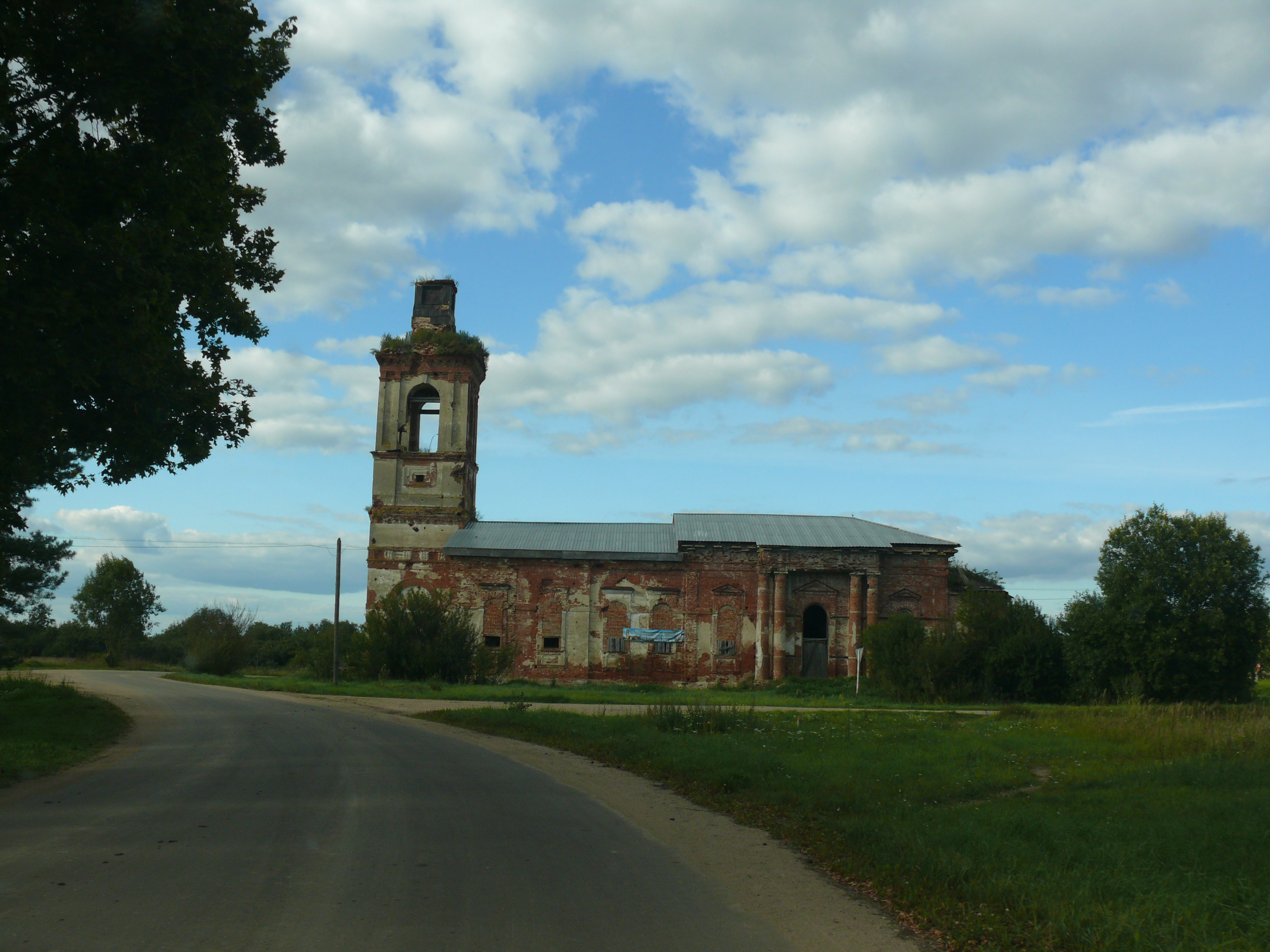 Meniusha village, Shimsky district, Novgorod oblast, Russia